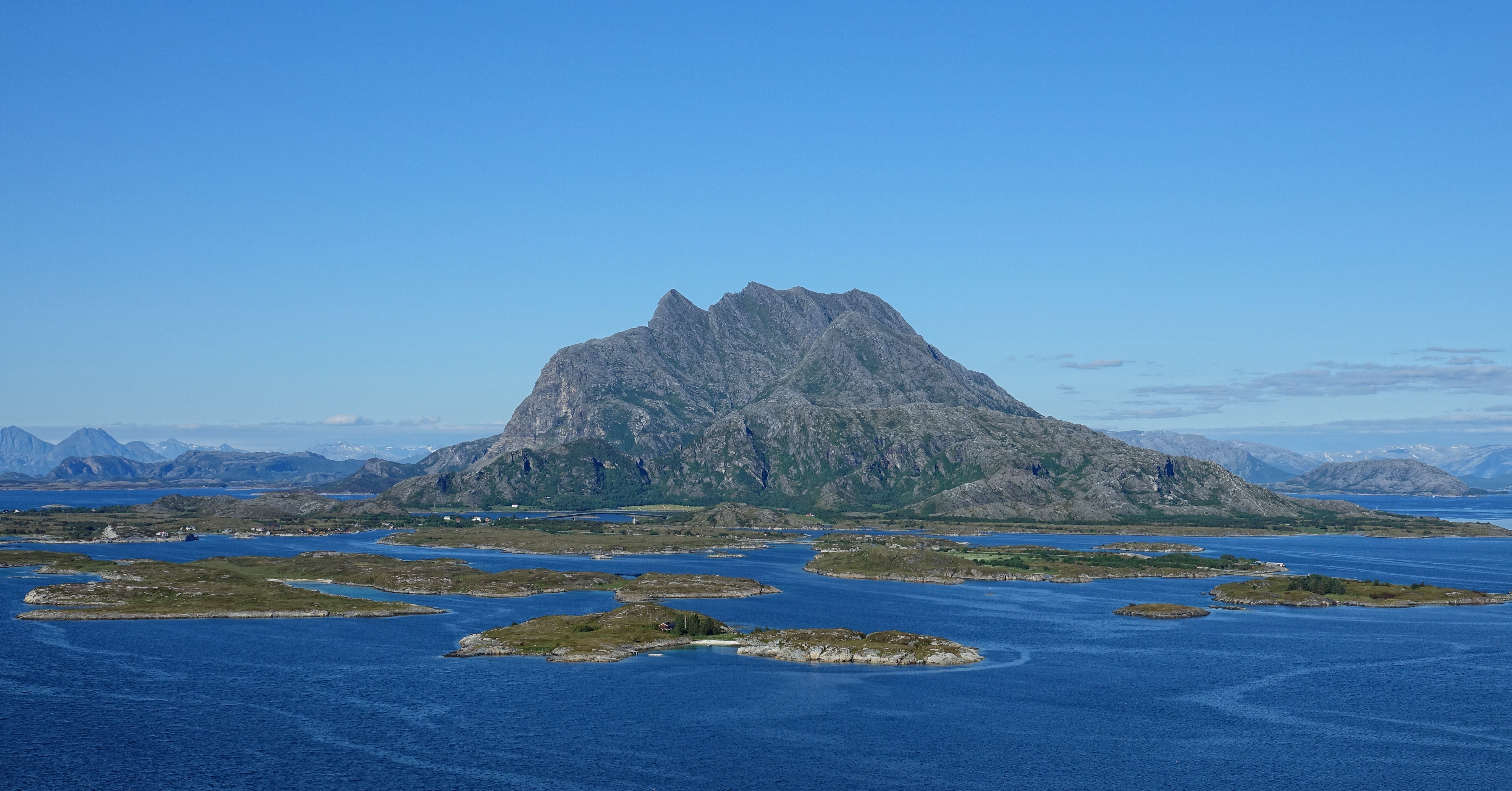 Back to front in the center of the photo we see Dønnmannen, Litltinden and Åkvikfjellet on Dønna island, as seen from south-west. The photo was taken from Ytre Øksningan in Herøy municipality.